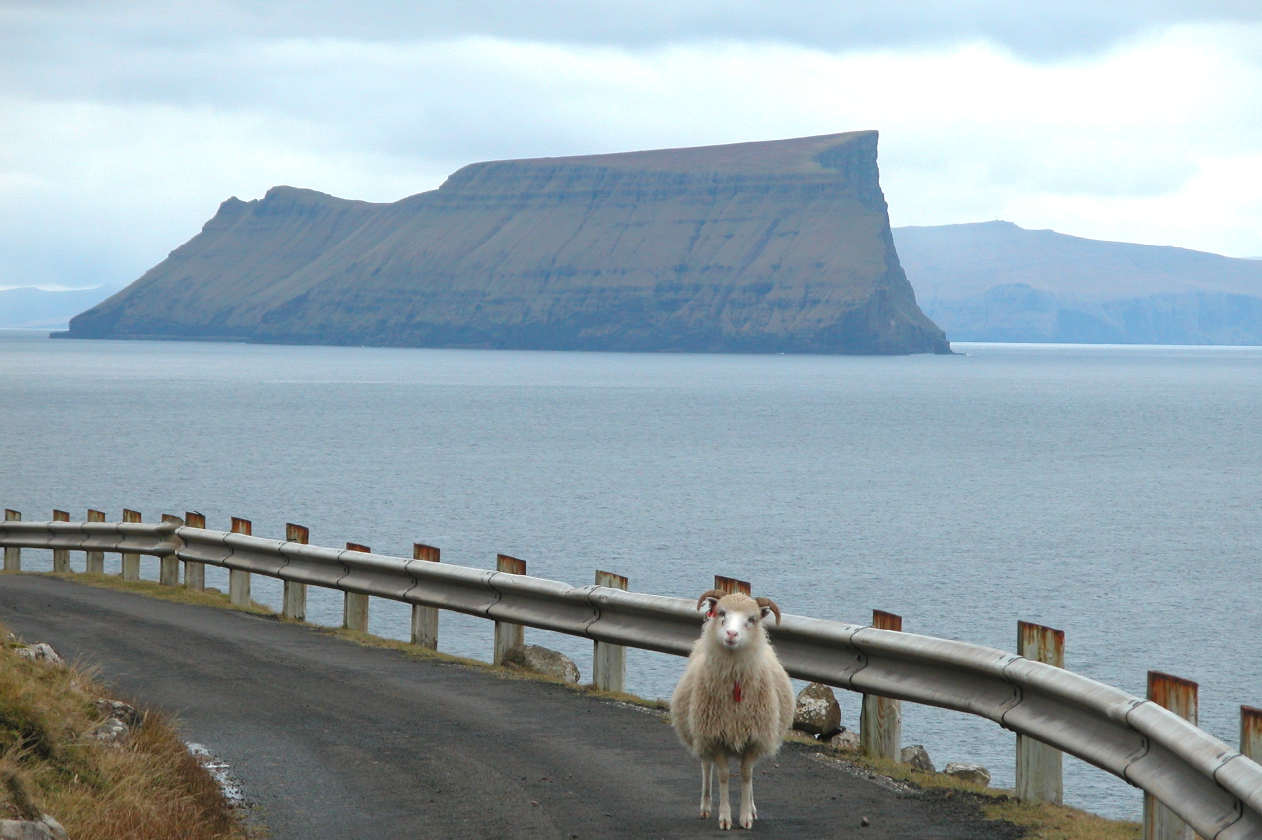 On the way to Skarvanes on Sandoy, Faroe Islands. The island in the background is Stóra Dímun (and Suðuroy at the horizon)